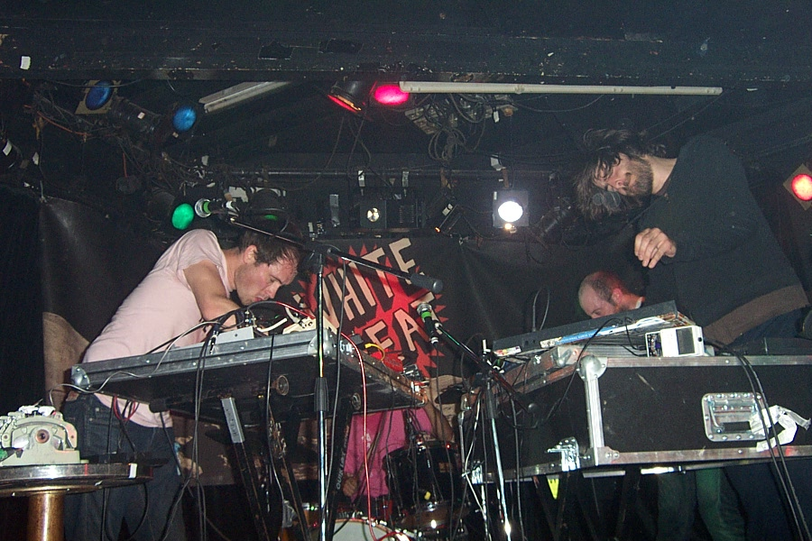 Holy Fuck performing at White Heat on June 26, 2007